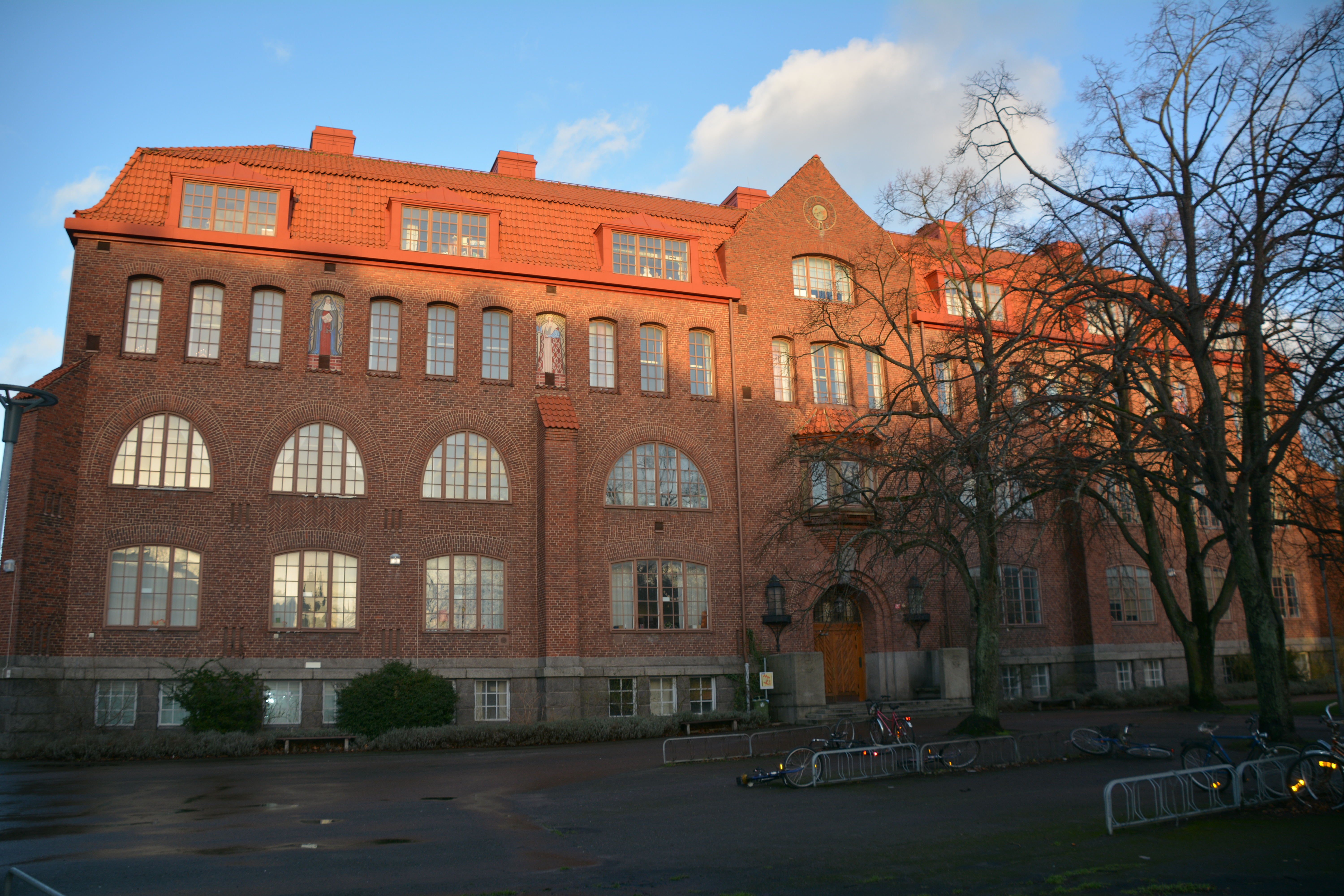 Lindebergska skolan I Lund